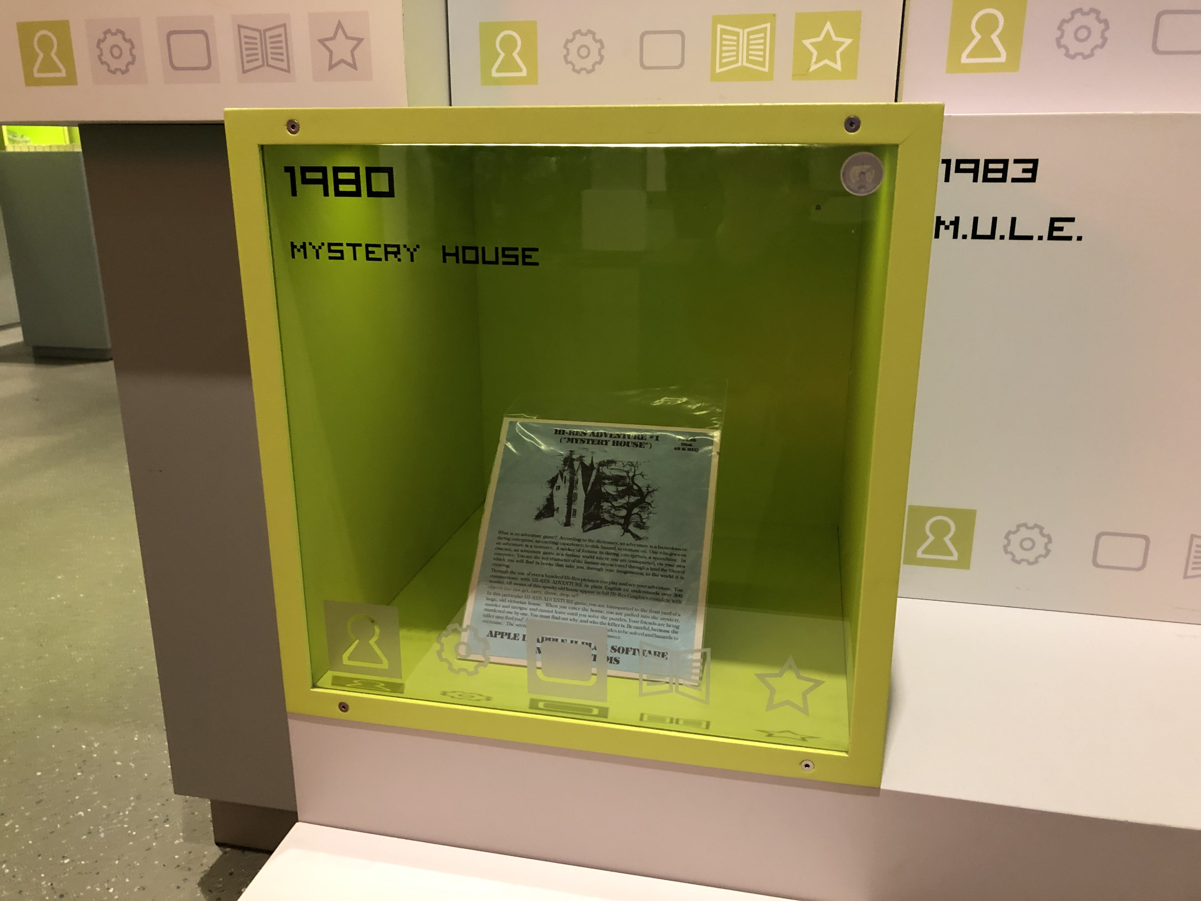 Video game Mystery House on historical wall of video games, Computerspielemuseum, Berlin